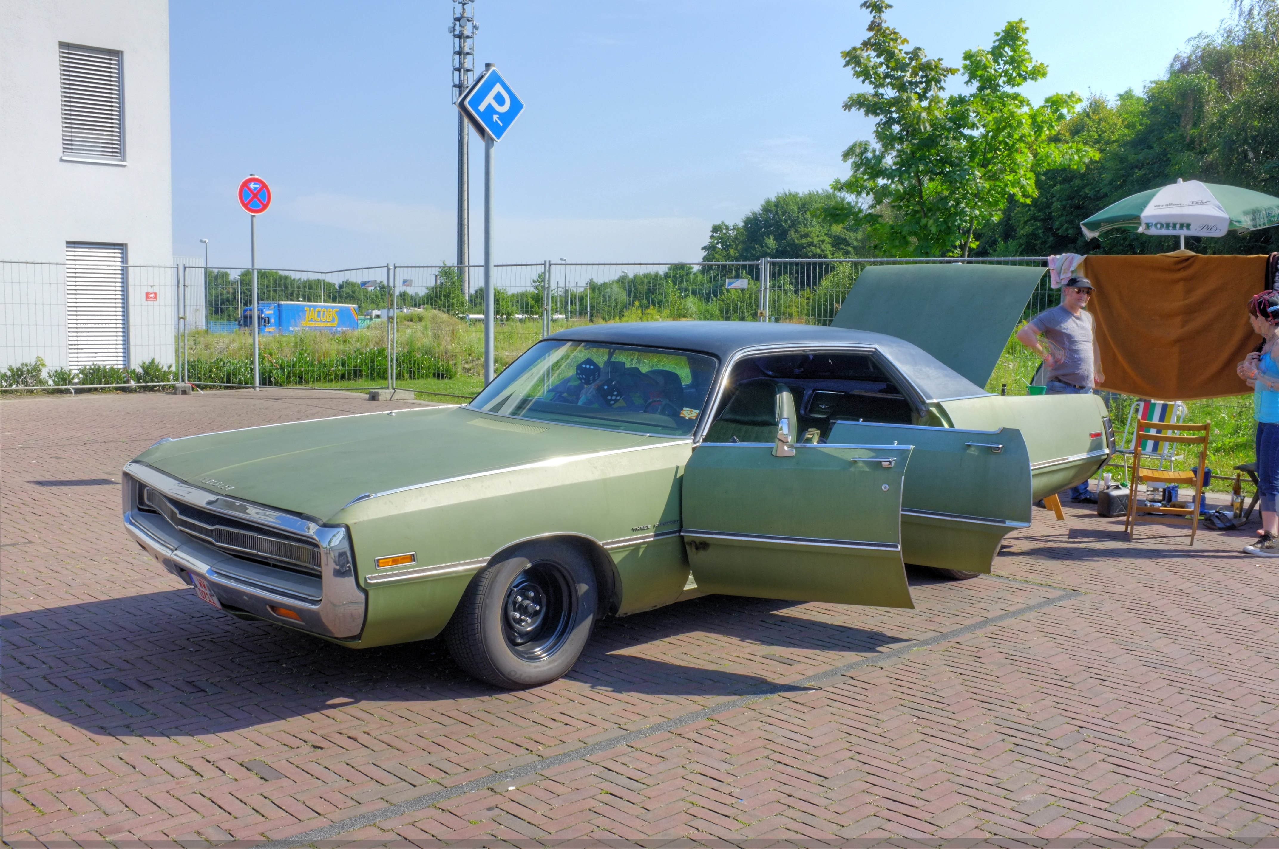 Luminance HDR 2.3.0 tonemapping parameters: Operator: Fattal Parameters: Alpha: 1 Beta: 0.9 Color Saturation: 1 Noise Reduction: 0 PreGamma: 1